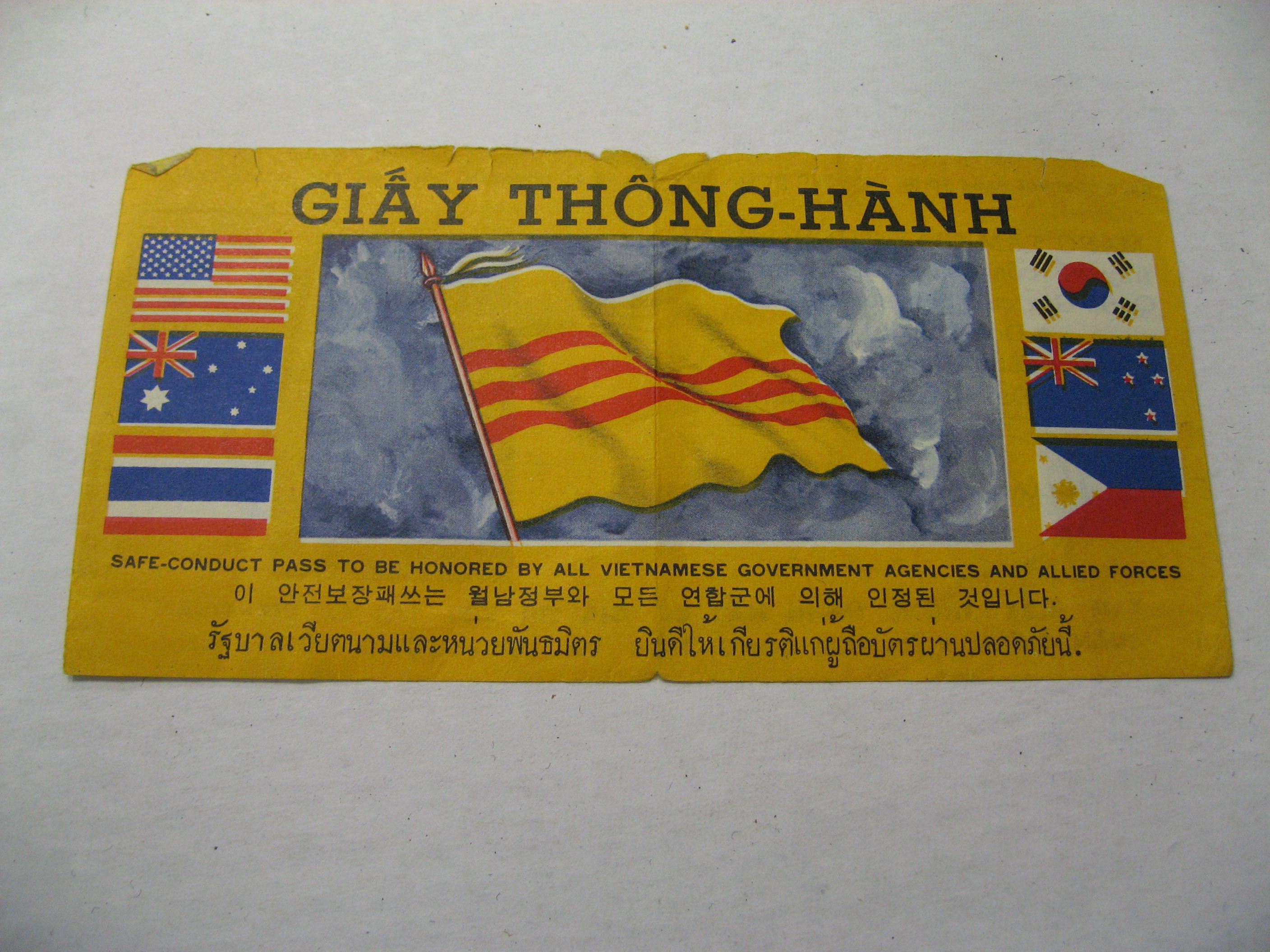 Accession: 2009-7-32 Pass, Safe Conduct, Vietnam 2.98"H X 6.02 W Paper Safe conduct pass, issued by American forces and air dropped in Vietnam to encourage defection of North Vietnamese and Viet Cong forces. The seven flag version was first produced in 1967. Collection of Curator Branch, Naval History and Heritage Command.